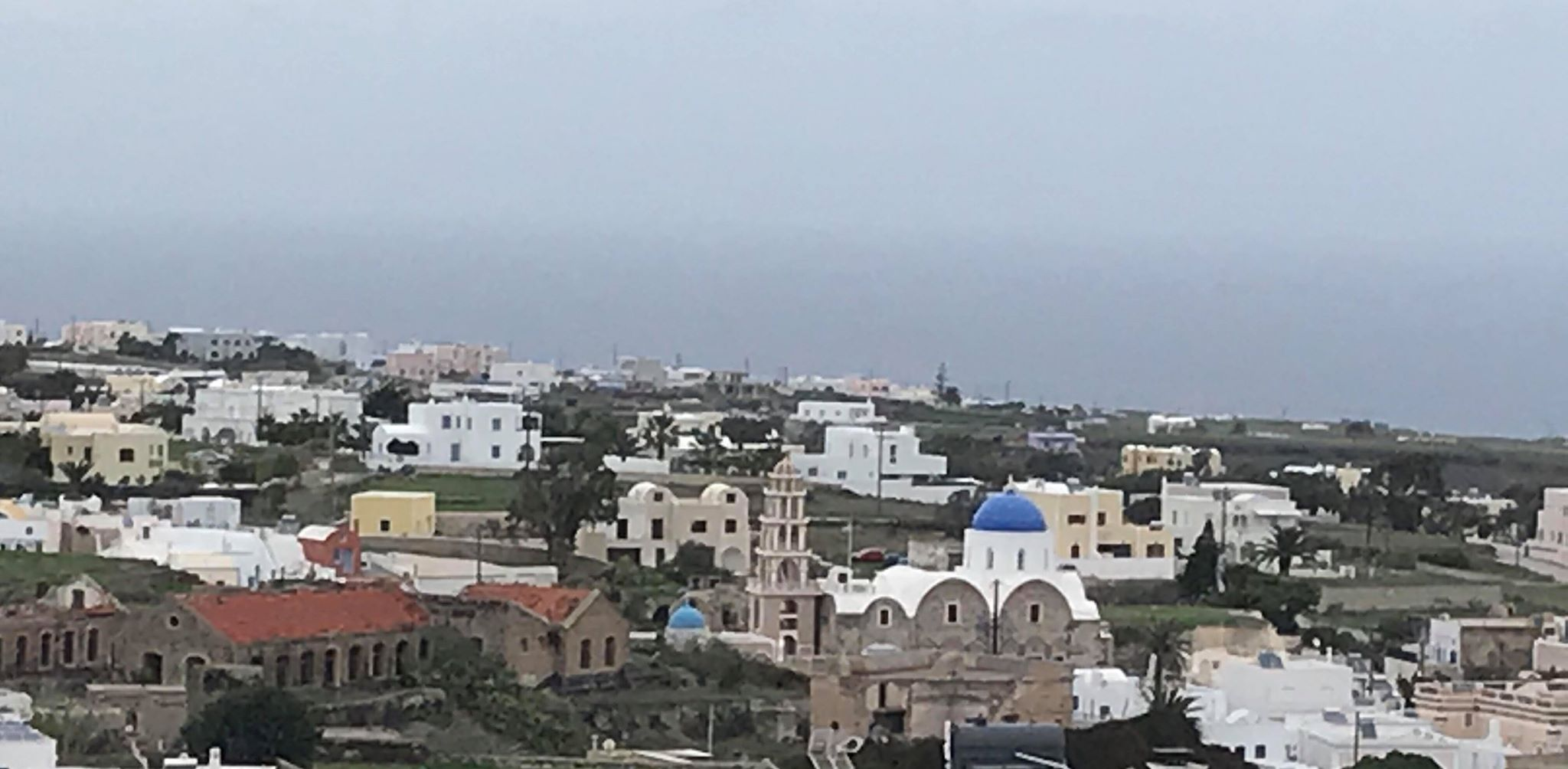 Saint Demetrius chrch in Mesaria, Thira, Greece